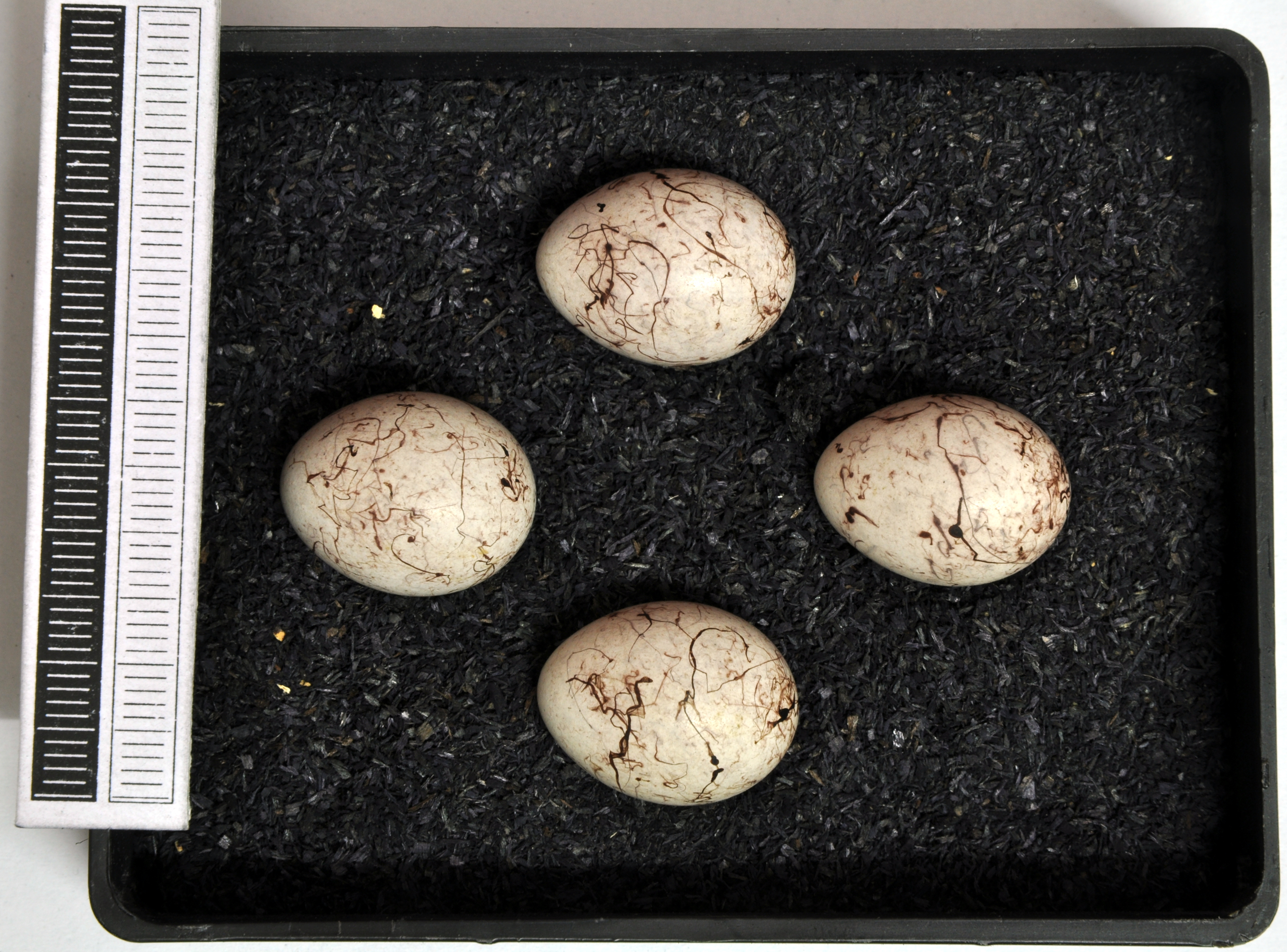 Rock bunting Emberiza cia, egg, Coll. Museum Wiesbaden, Origin: Kötzting, Bavaria, 17.05.1973, leg. W. Abelmann